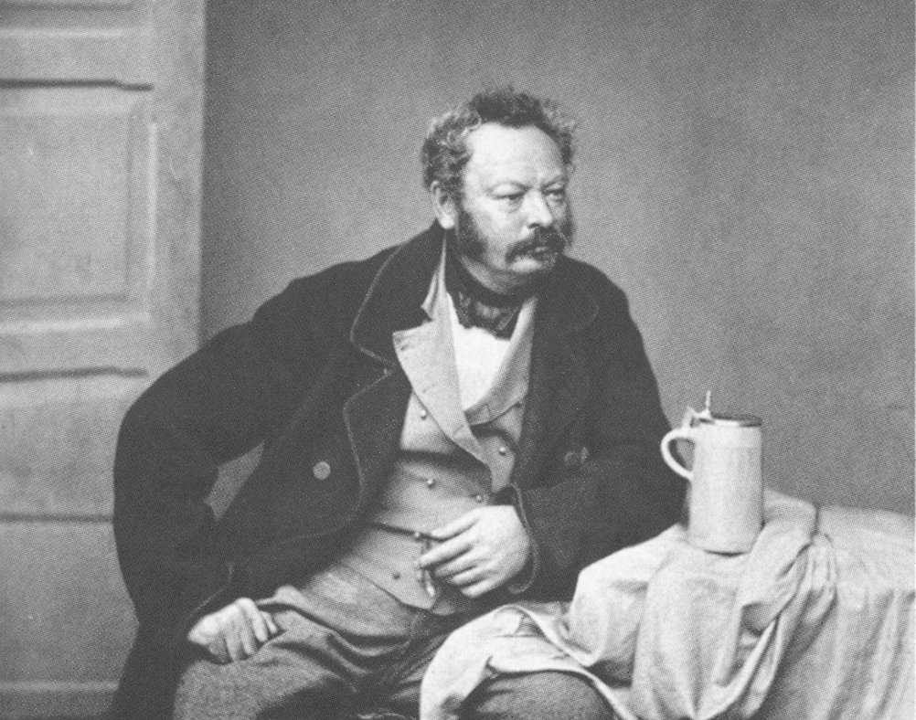 Heinrich Bürkel (1802-1869), german painter.